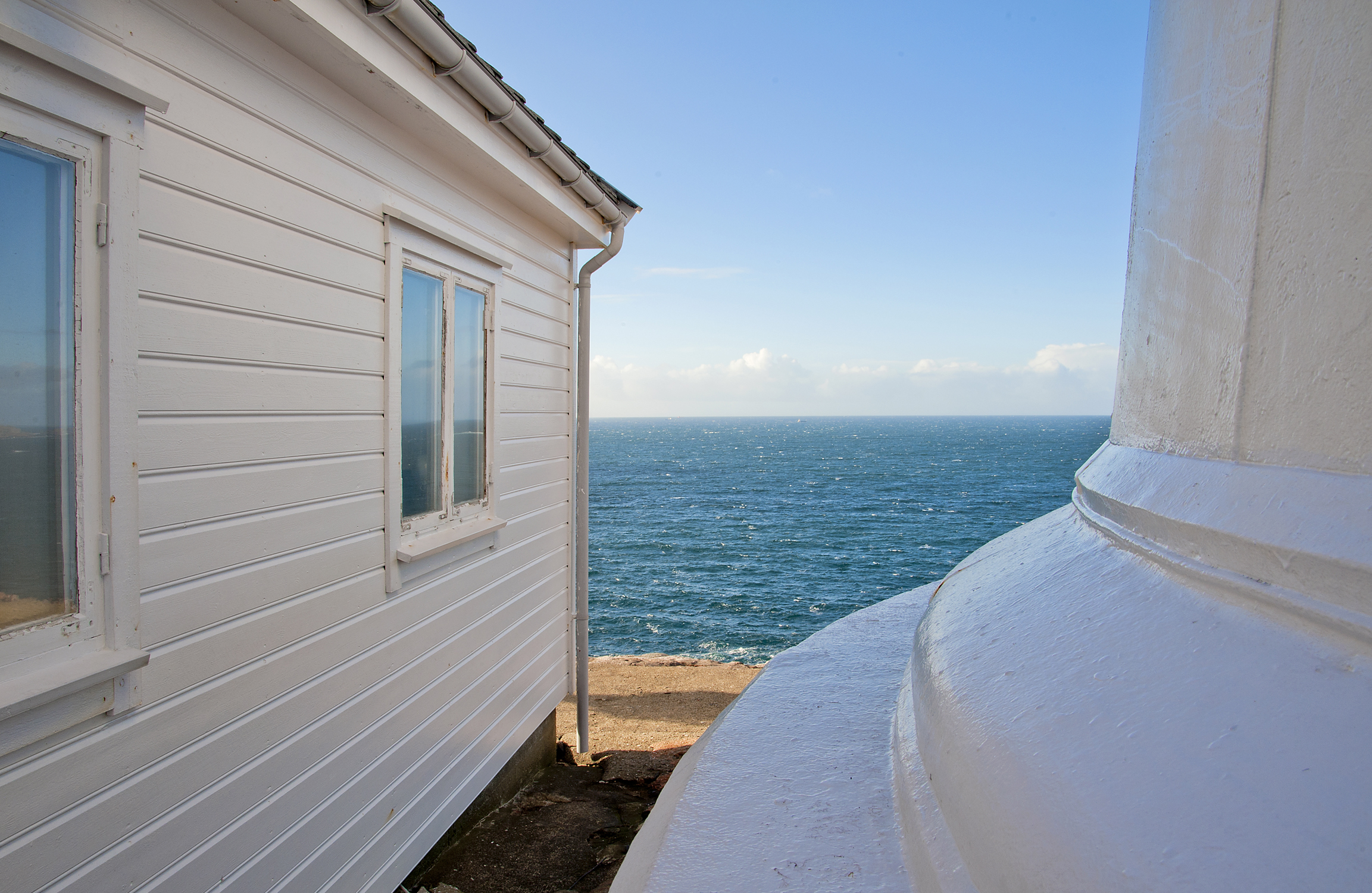 Lindesnes LighthouseNorsk bokmål: Lindesnes fyr